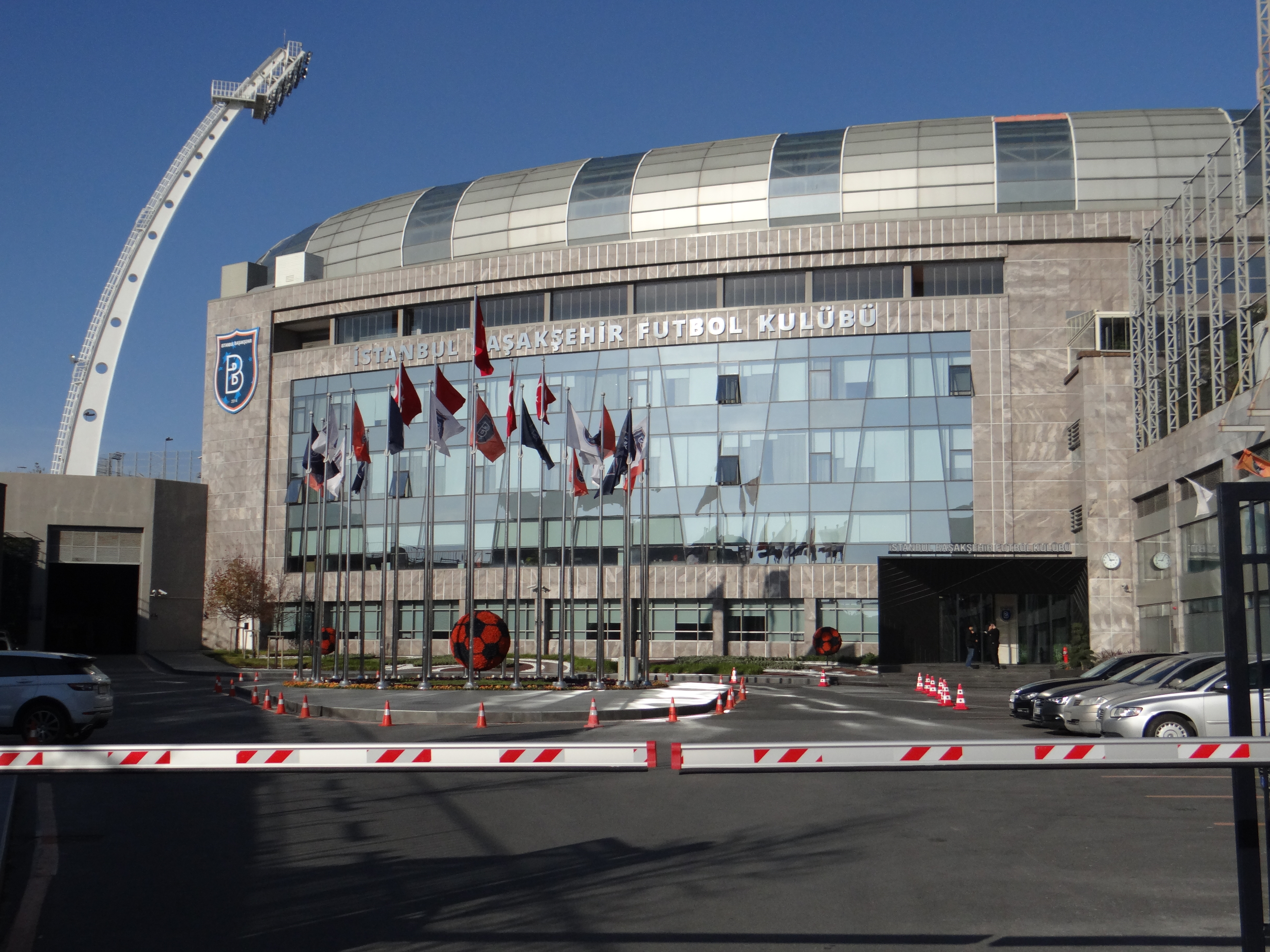 Başakşehir Fatih Terim Stadyumu 20171213